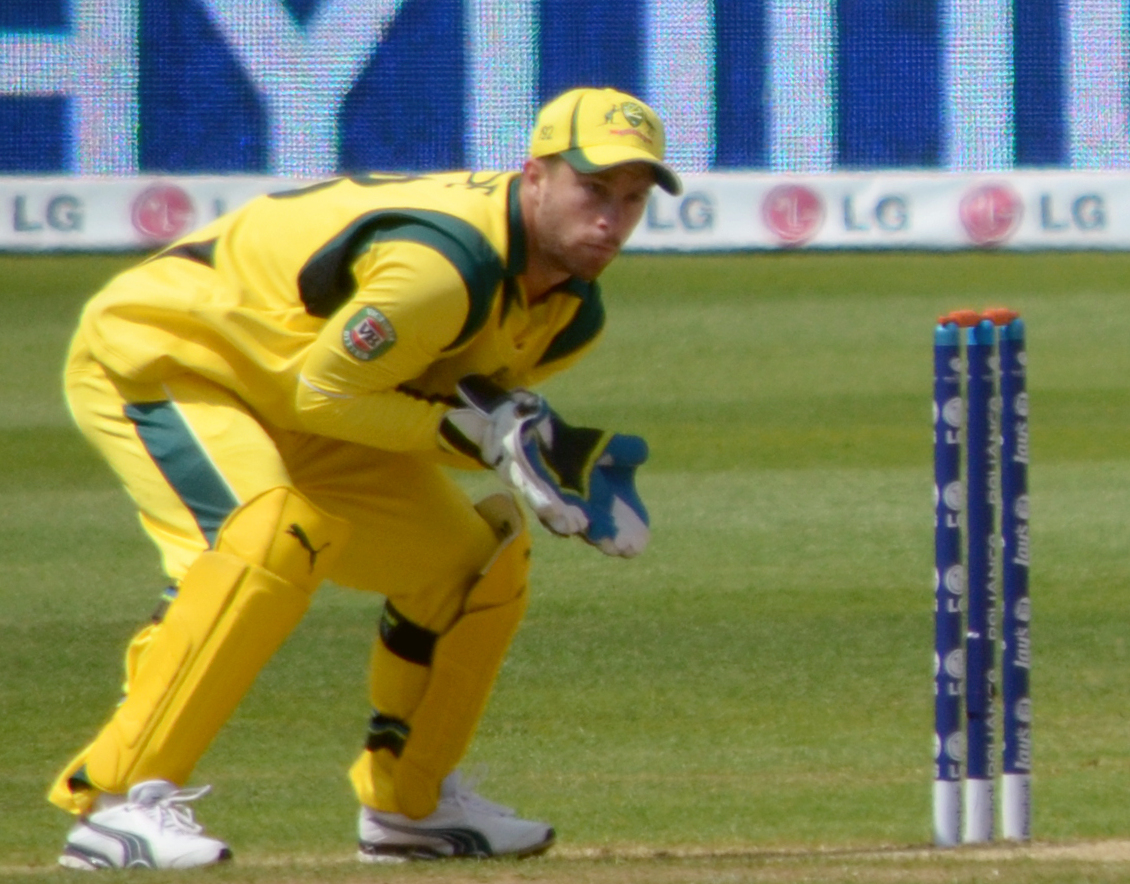 Ian Bell batting for England during their victory over Australia in the 2013 ICC Champions Trophy game at Edgbaston. The wicket-keeper is Matthew Wade.